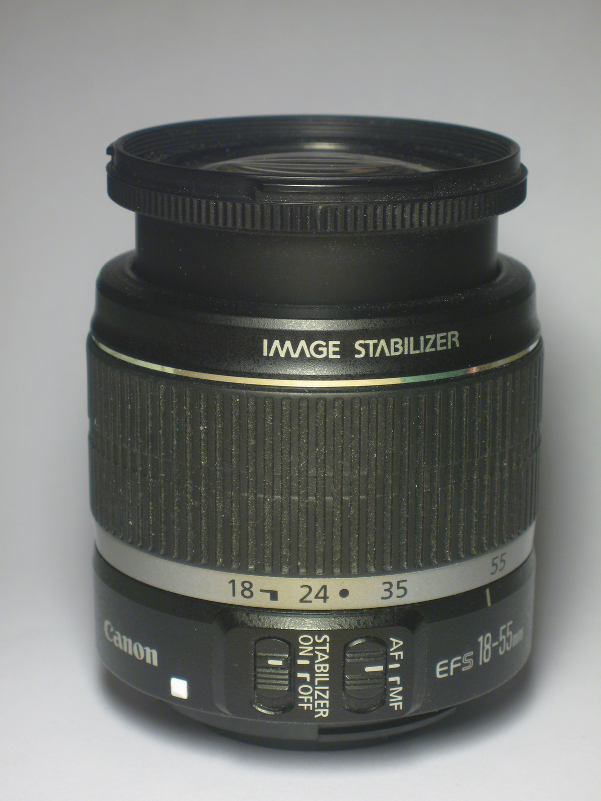 Canon EF-S 18-55 IS